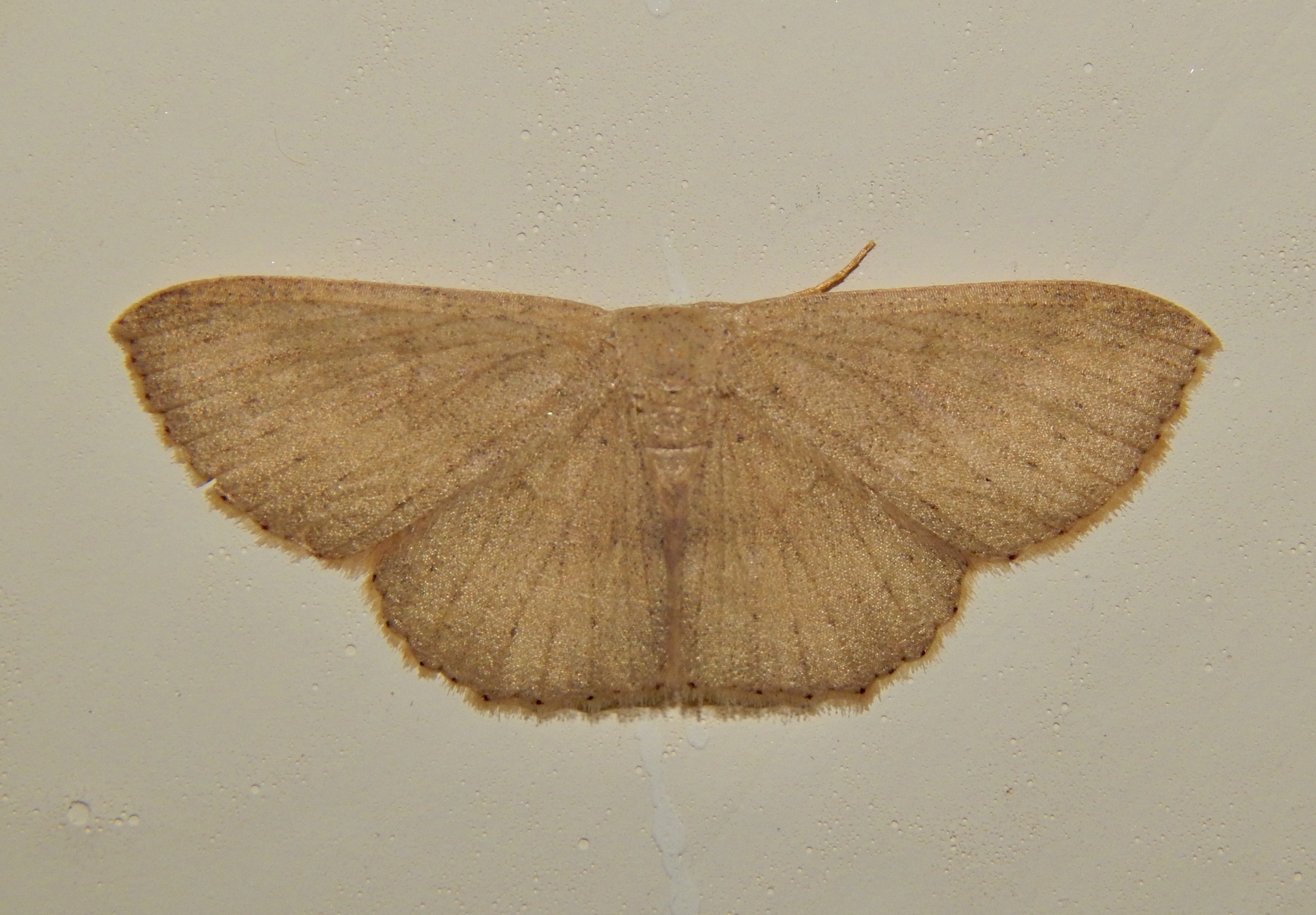 Perixera moth from Western ghats of India